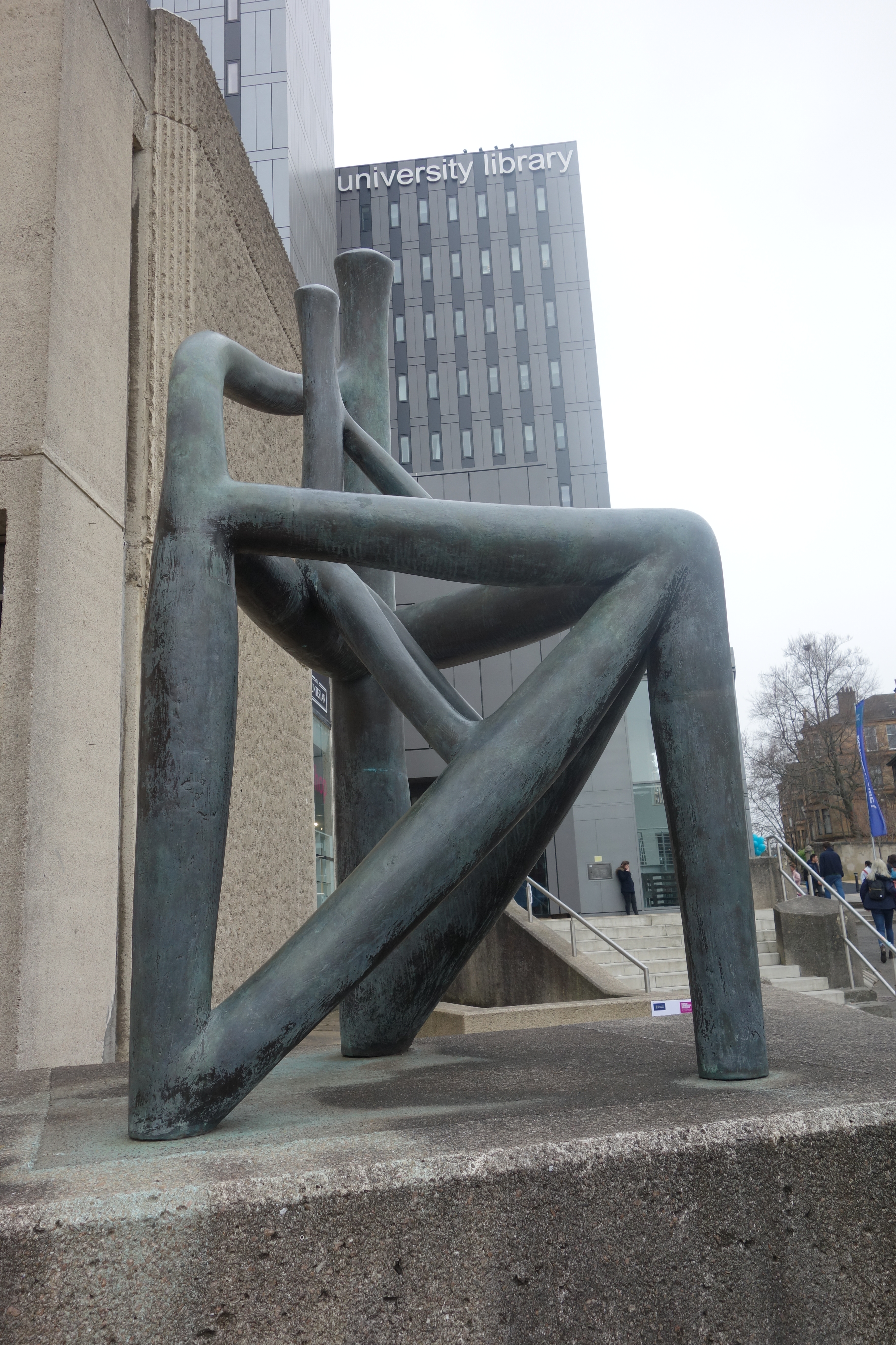 Diagram of an Object. Bronze sculpture by Dhruva Mistry. Location: in front of Hunterian Art Gallery, University of Glasgow. Sculpture placed in 1990. Glasgow University Library is visible in the background.